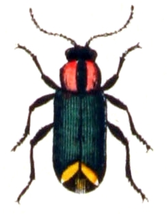 Axinotarsus pulicarius, from Calwer's Käferbuch, Table 27, Picture 20. Taxonomy was updated to 2008, using mostly the sites Fauna Europaea and BioLib. Please contact Sarefo if the determination is wrong!